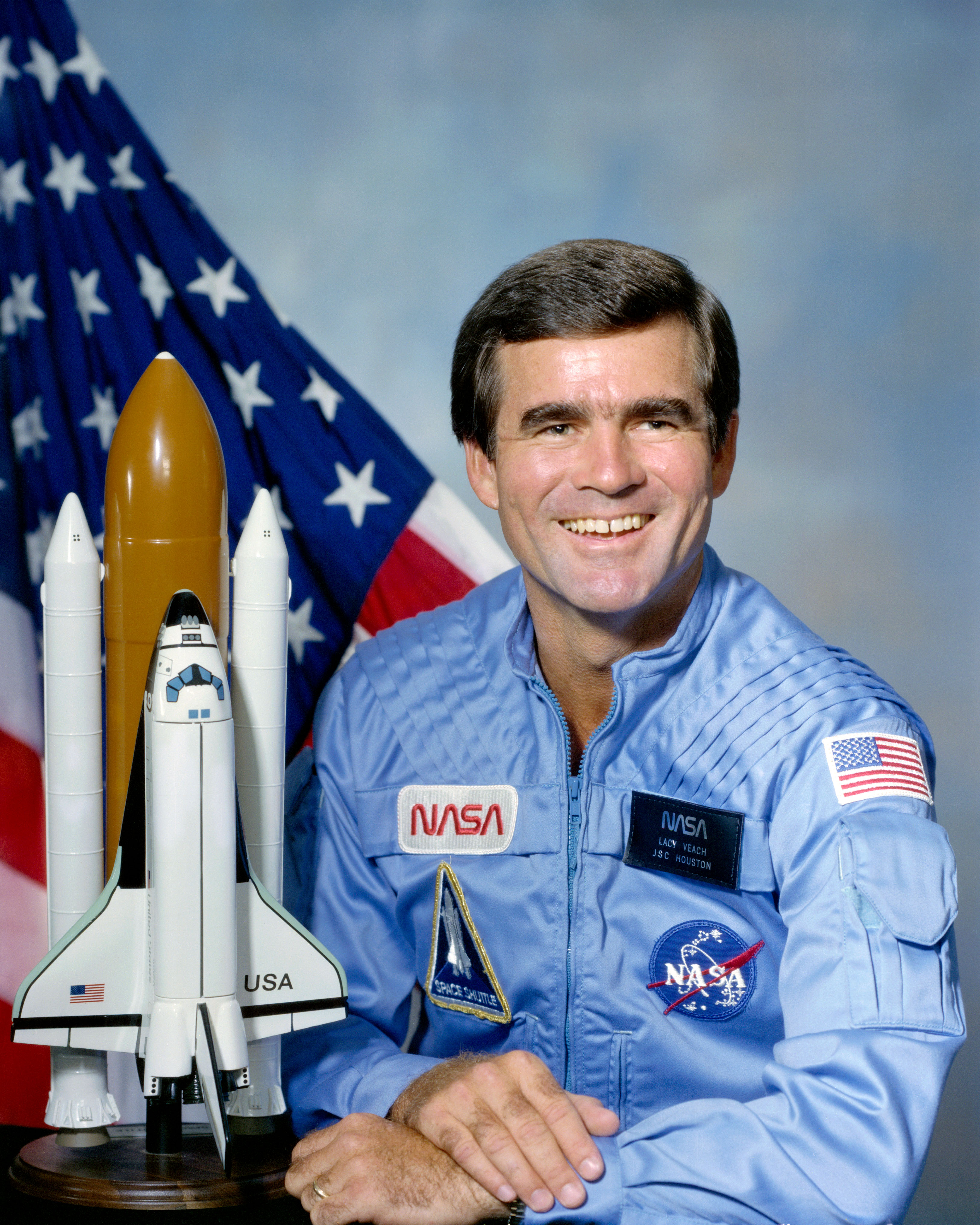 Portrait photograph of Astronaut Charles L. Veach in blue flight suit with Shuttle model and American flag in the background.